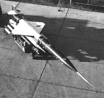 AGM-60 Ramjet on a dolly, waiting to be loaded onto its B-50 carrier aircraft for testing of missile defense systems.